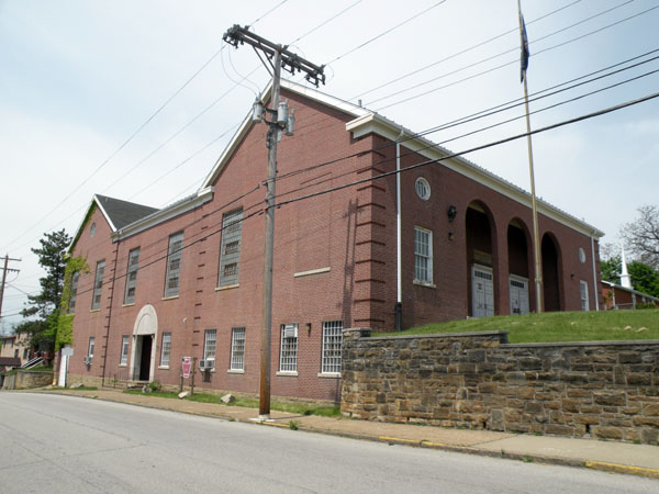 Picture of the Canonsburg Armory located at West College Street and North Central Avenue in Canonsburg, Pennsylvania, on May 1, 2010. Built in 1938, the armory is listed on the National Register of Historic Places. Architectural style: Colonial Revival. Architect, builder: George W. Brugger, Branna Construction Corp.